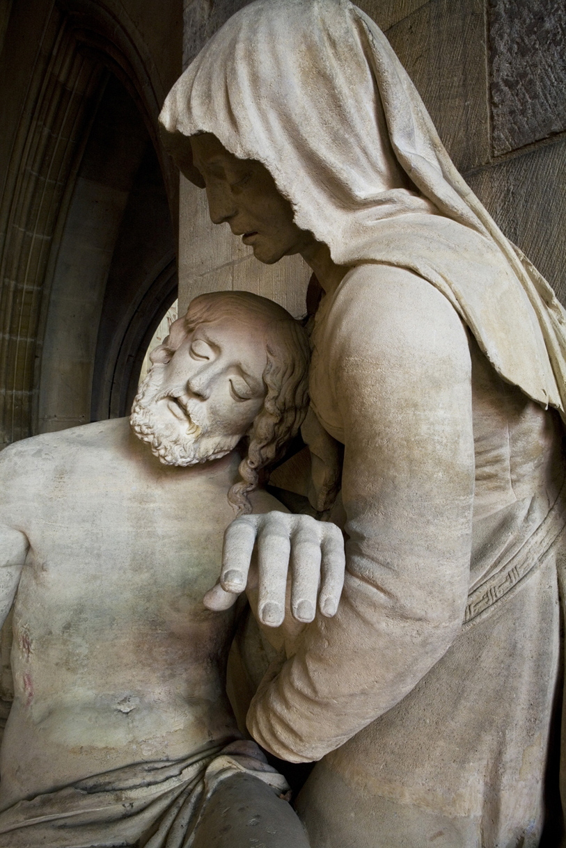 Ligier Richier work in Etain